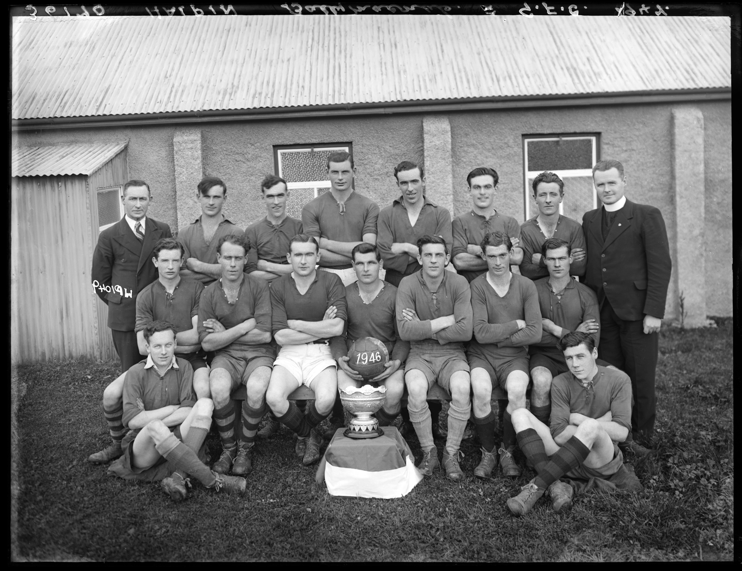 Creator: H. Allison & Co. Photographers Date: 1947 Original Format: Glass Plate Negative, 9.5 X 7.5 inches Description: Group portrait of Ballymacnab Gaelic Football tem with trophy on display. PRONI Ref: D2886/S/13 Copying and copyright: Please For Copy Orders, contact